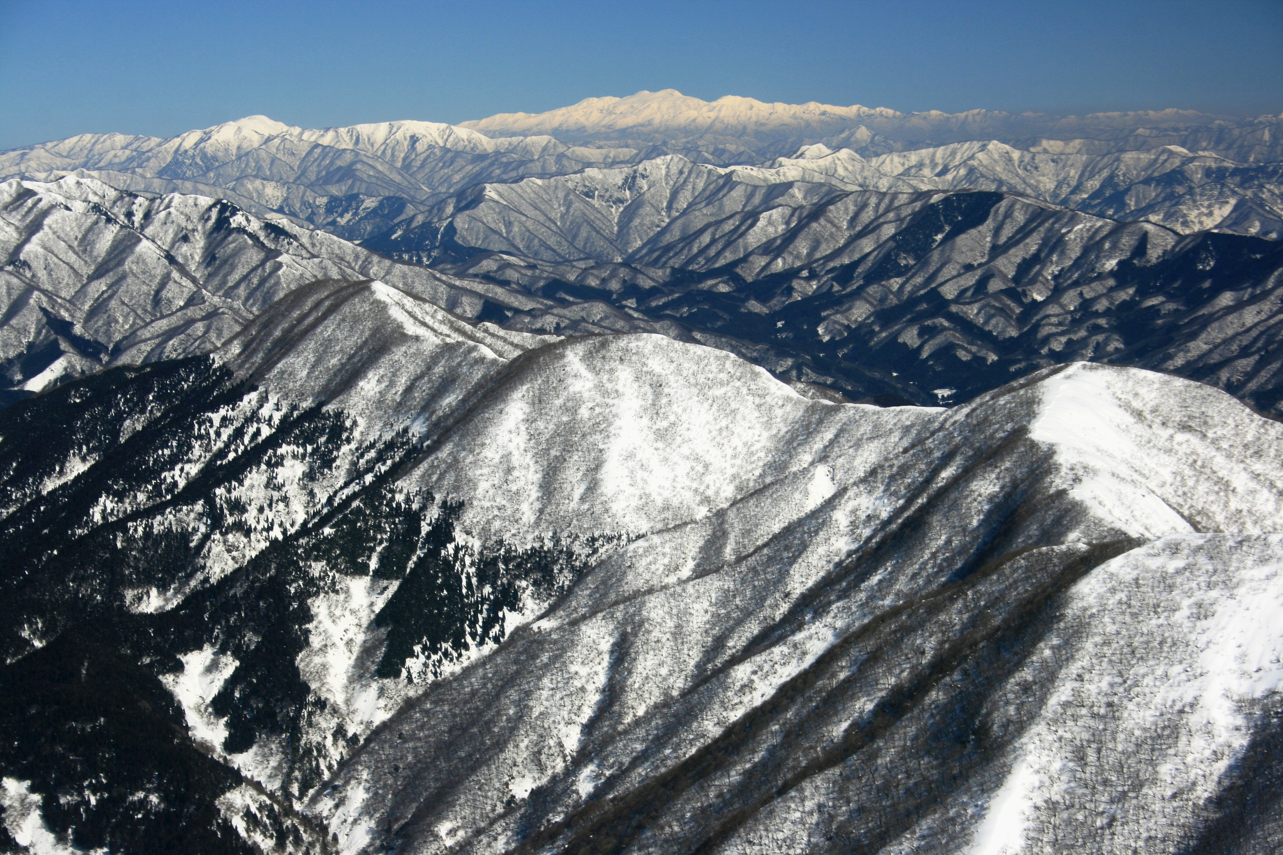 Mount Haku from Mount Ibuki